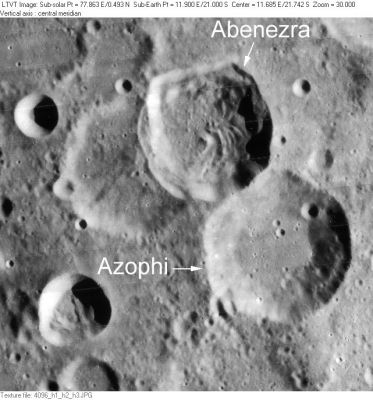 Image LO-IV-096H. The older crater of similar size that Abenezra overlays on the southwest is Abenezra C. The field includes Azophi and a tiny part of the southwest rim of Geber is visible in the upper right corner.